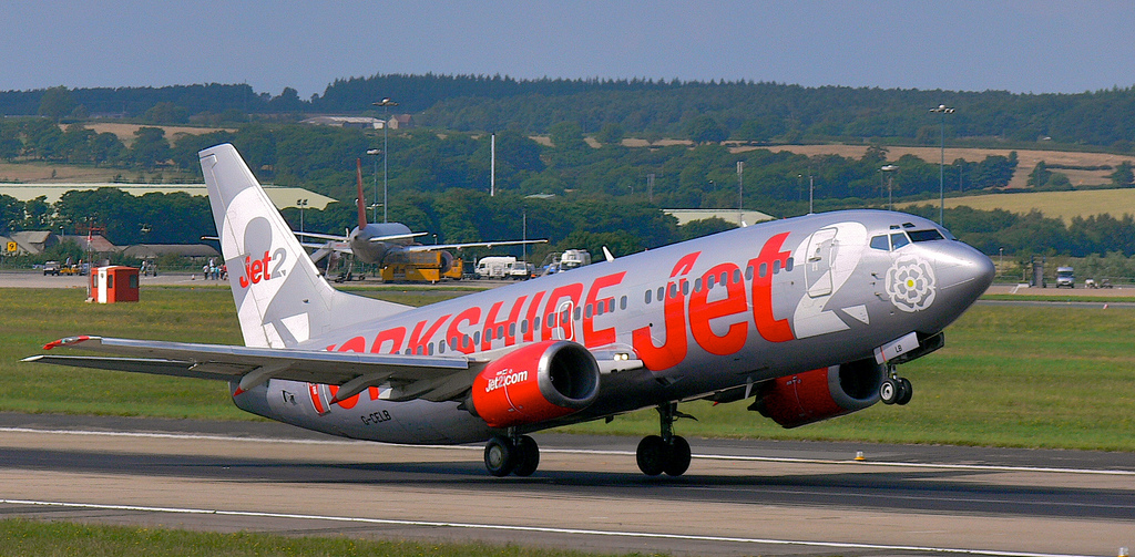 A Boeing 737-300 takes off from Leeds Bradford Airport, UK